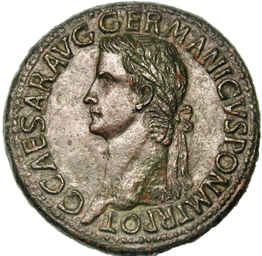 Caligula (AD 37-41). Orichalcum sestertius (27.92 gm). Rome, AD 37-38. C CAESAR AVG GERMANICVS PON M TR POT, laureate head left